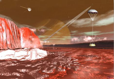 This artist's rendering shows Titan's surface with Saturn dimly visible in the background through Titan's thick atmosphere of methane, ethane and (mostly) nitrogen. The Cassini spacecraft flies over the surface with its high-gain antenna pointed at the Huygens probe as it reaches the surface. Thin methane clouds dot the horizon and a narrow methane spring, or "methanefall," flows from the cliff and drifts mostly into vapor. Smooth ice features rise out of the methane/ethane lake, and crater walls can be seen far in the distance.